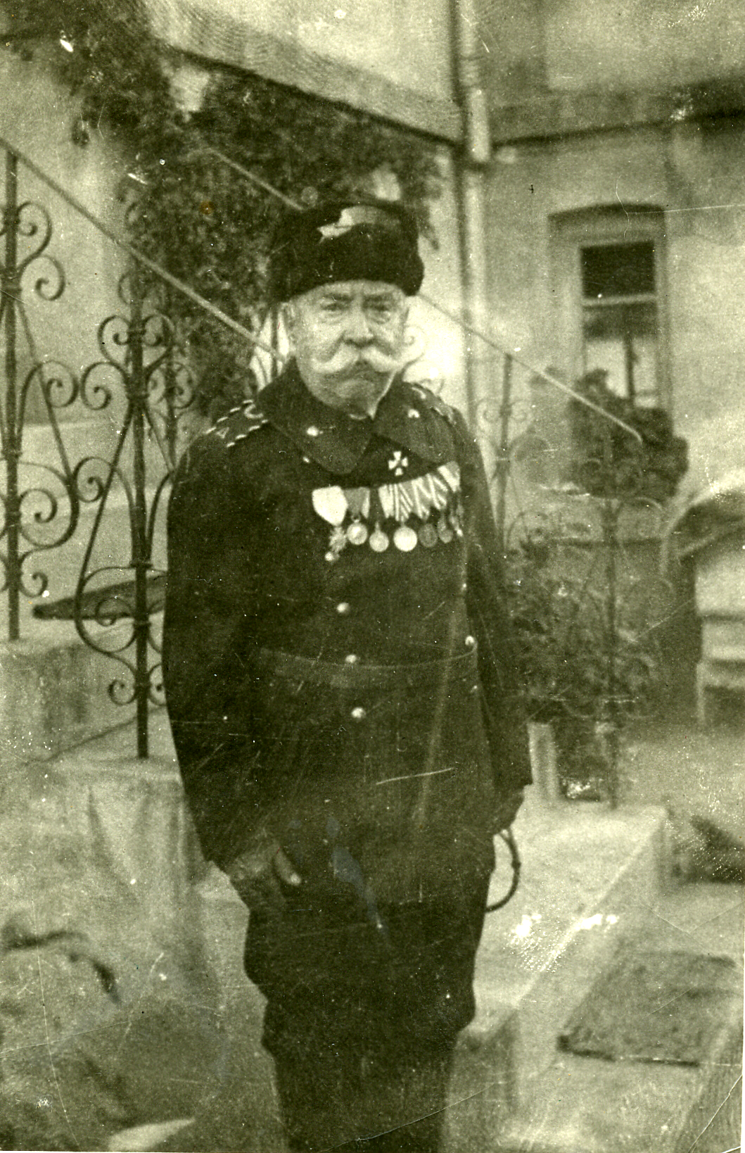 own scan of my family picture taken in 1934 by my grandfather